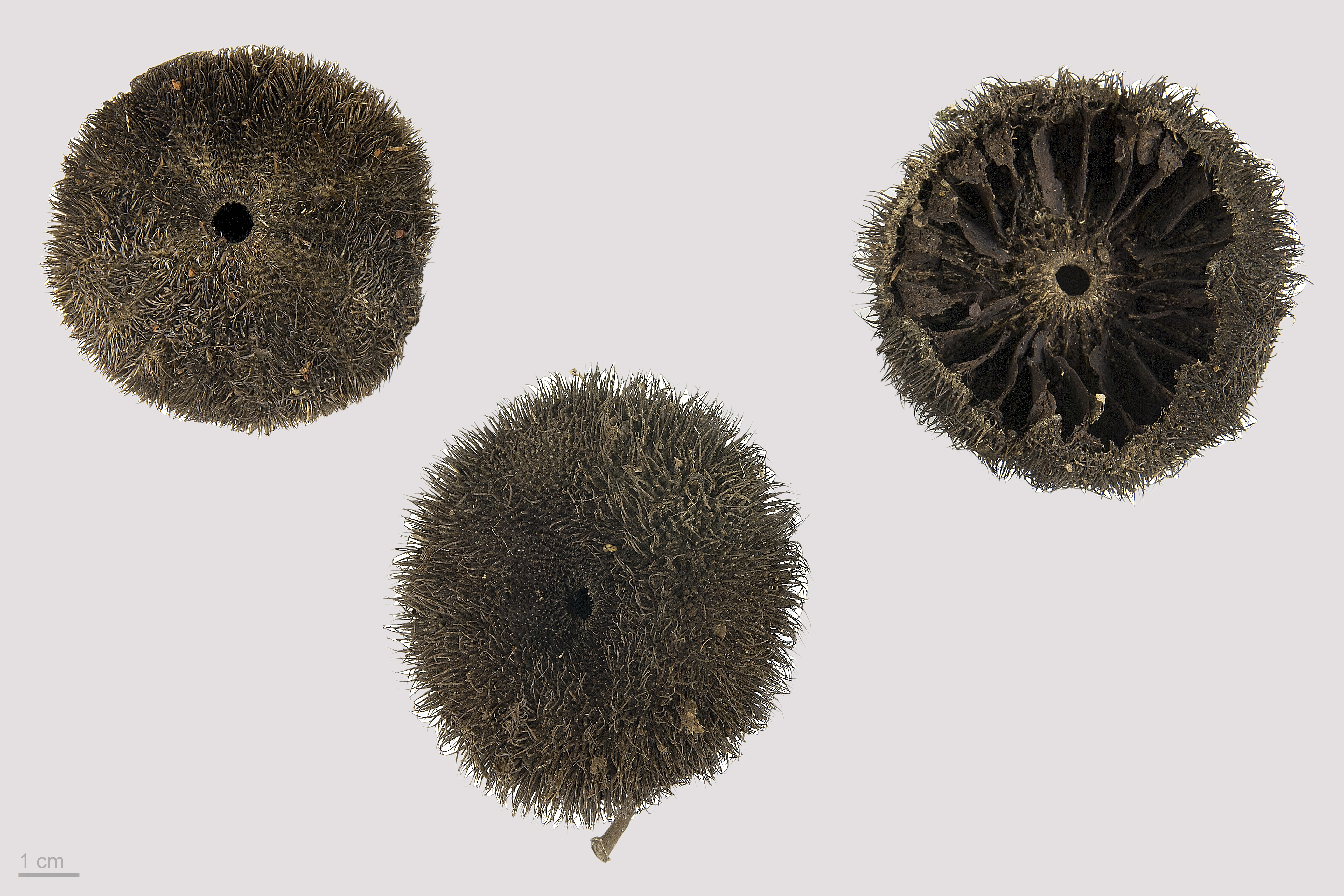 Apeiba glabra, fruits